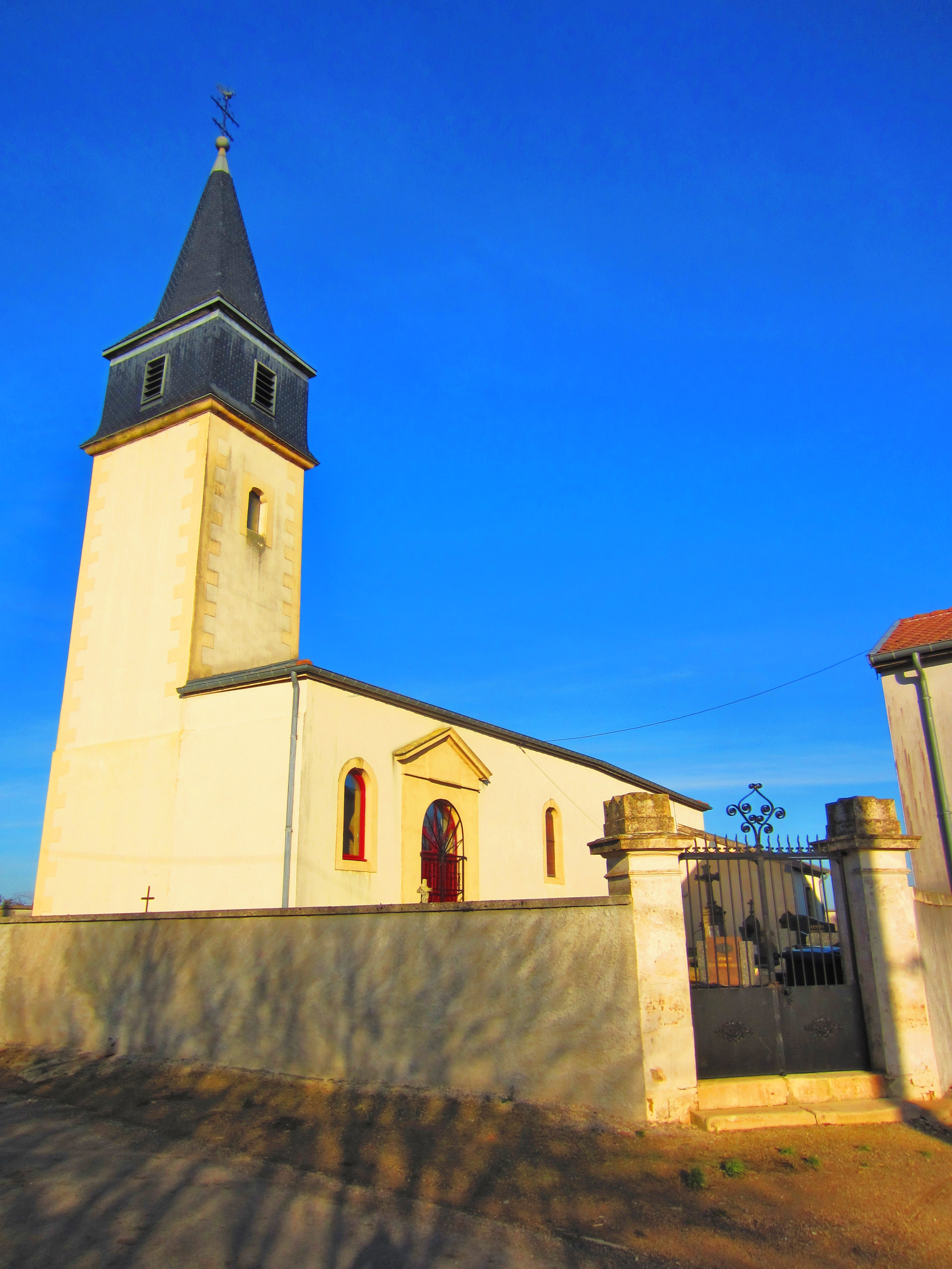 Lanheres church